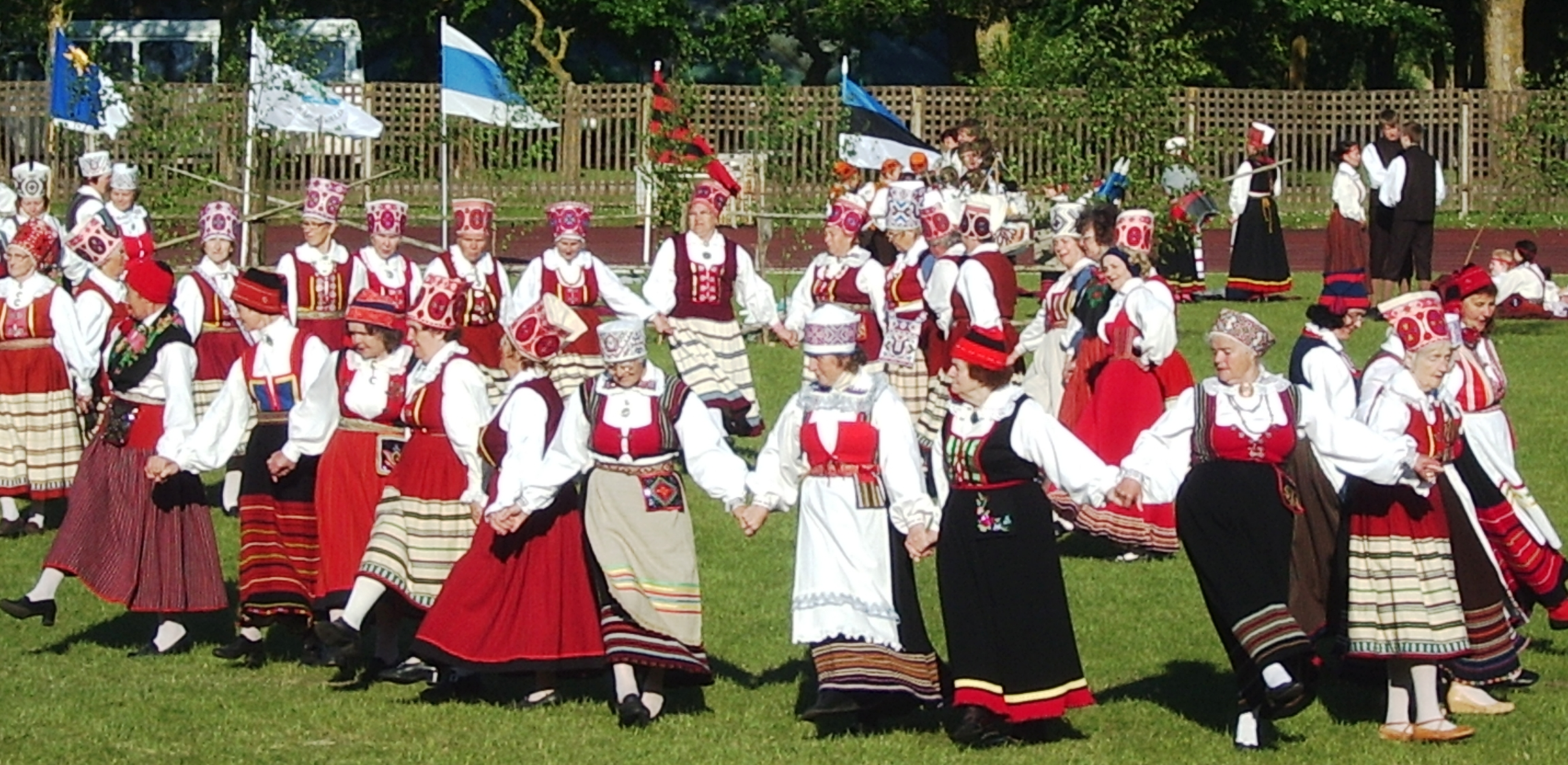 Women living in Saare county dancing in traditional costumes.